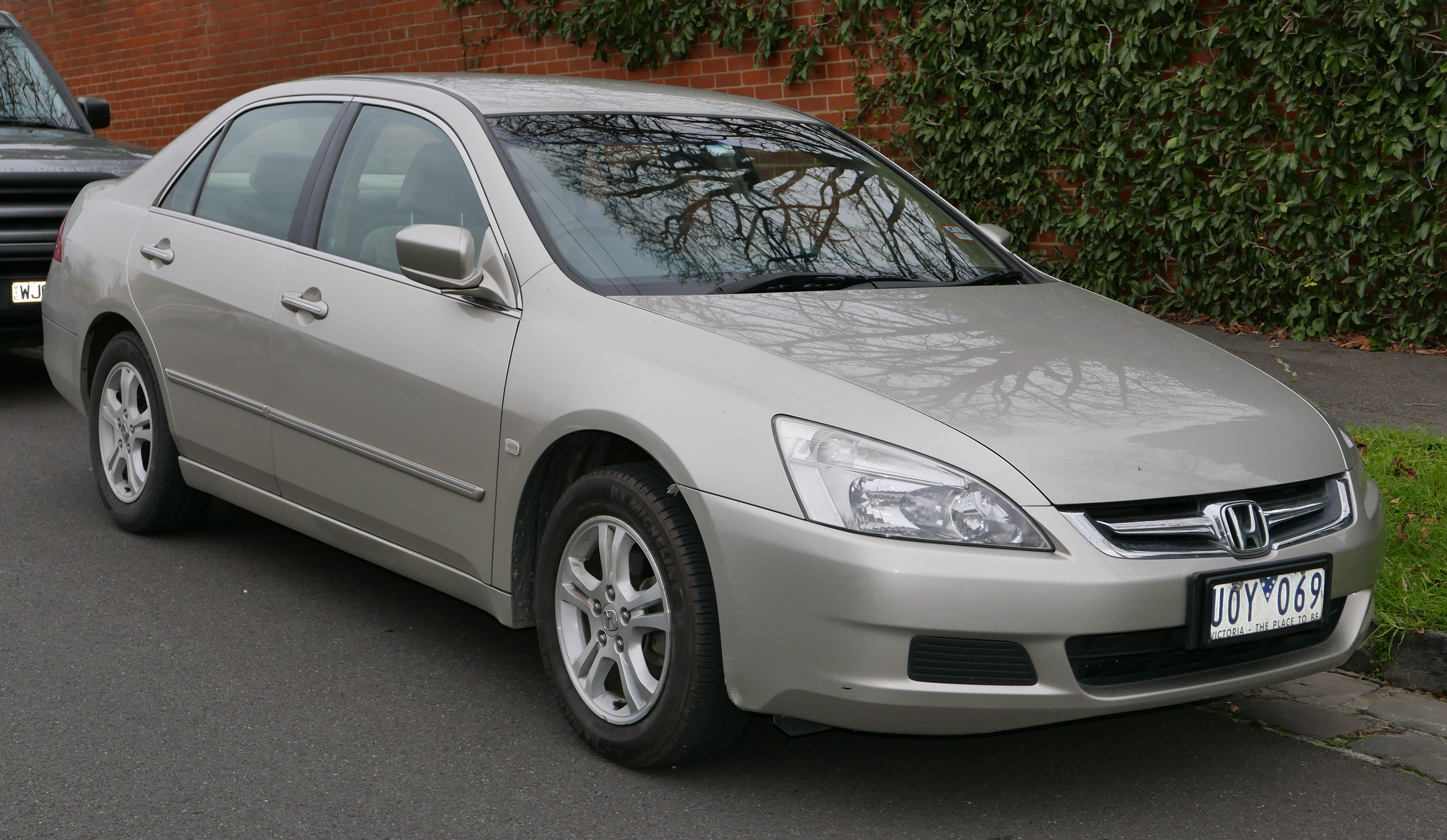 2006 Honda Accord (MY07) VTi sedan. Photographed in Kew, Victoria, Australia. Vehicle registration enquiry resultsJurisdictionVictoriaRegistrationUOY069Chassis codeMRHCM56406P033267Engine codeK24A84805488Compliance date2006-12Year of manufacture2006